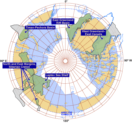 Circum-Arctic Resource Appraisal: Estimates of Undiscovered Oil and Gas North of the Arctic Circle